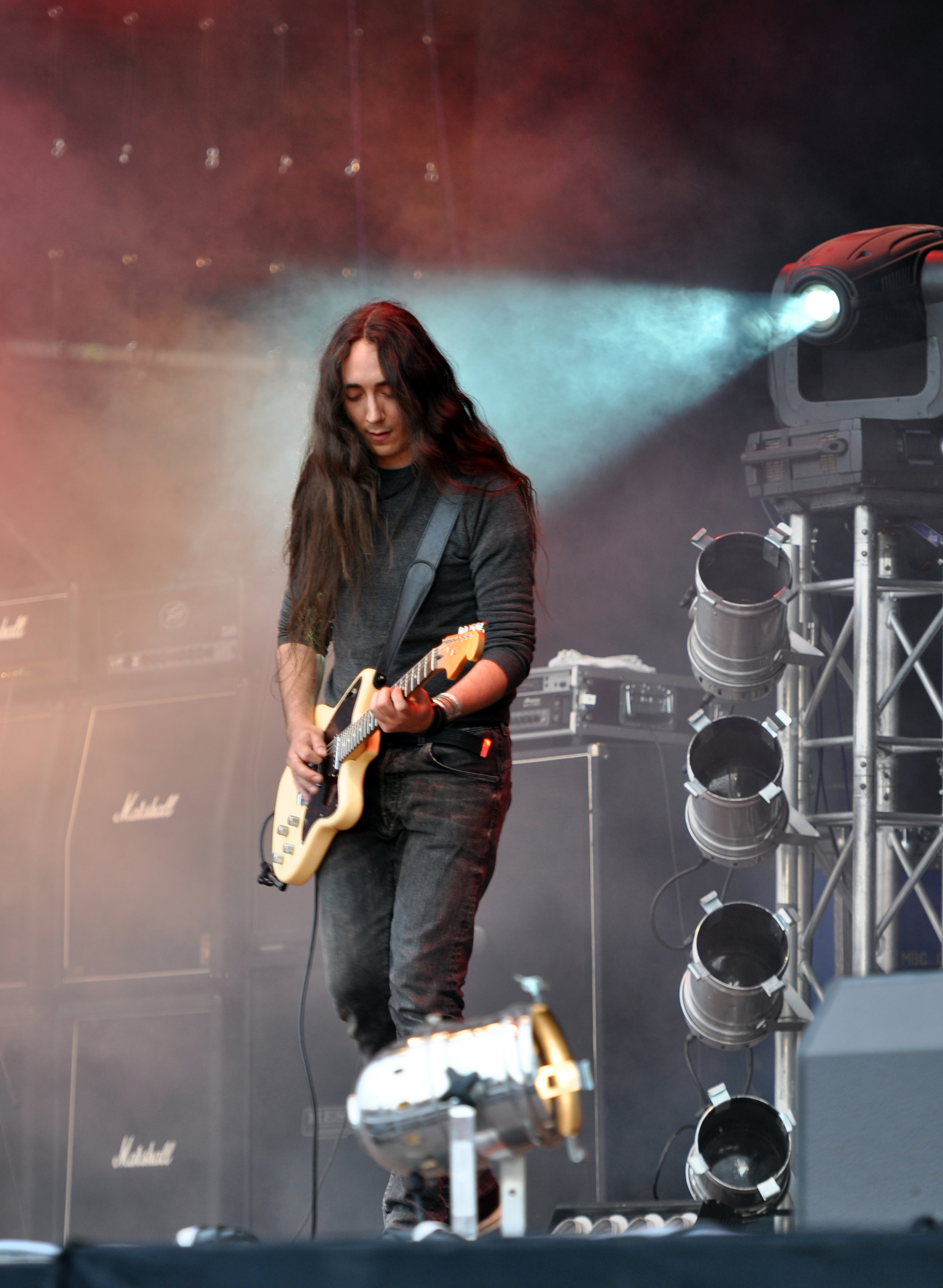 Alcest at Party.San Metal Open Air 2013